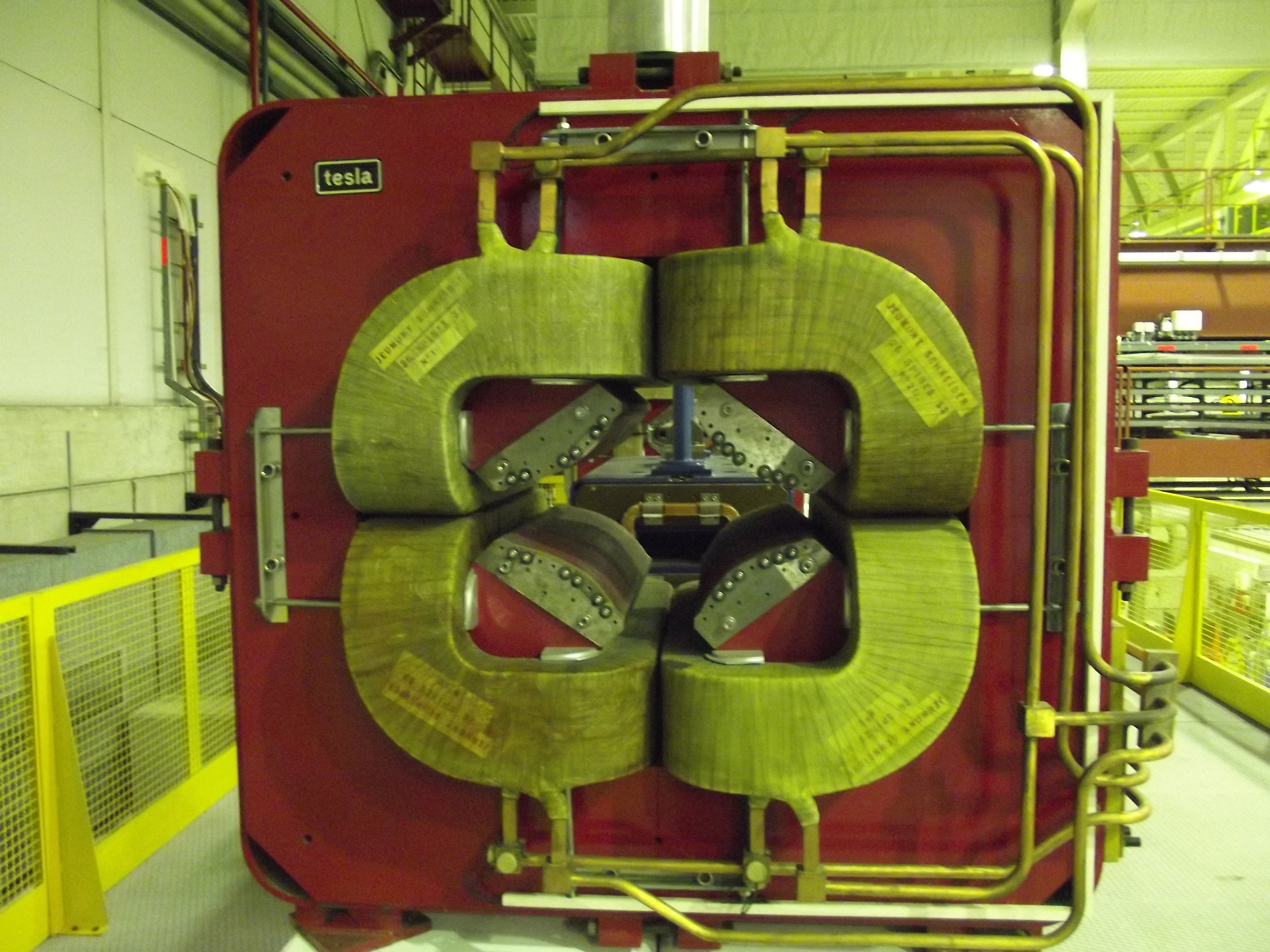 Quadrupole magnet used in particle physics apparatus at CERN, the European organization for nuclear research.